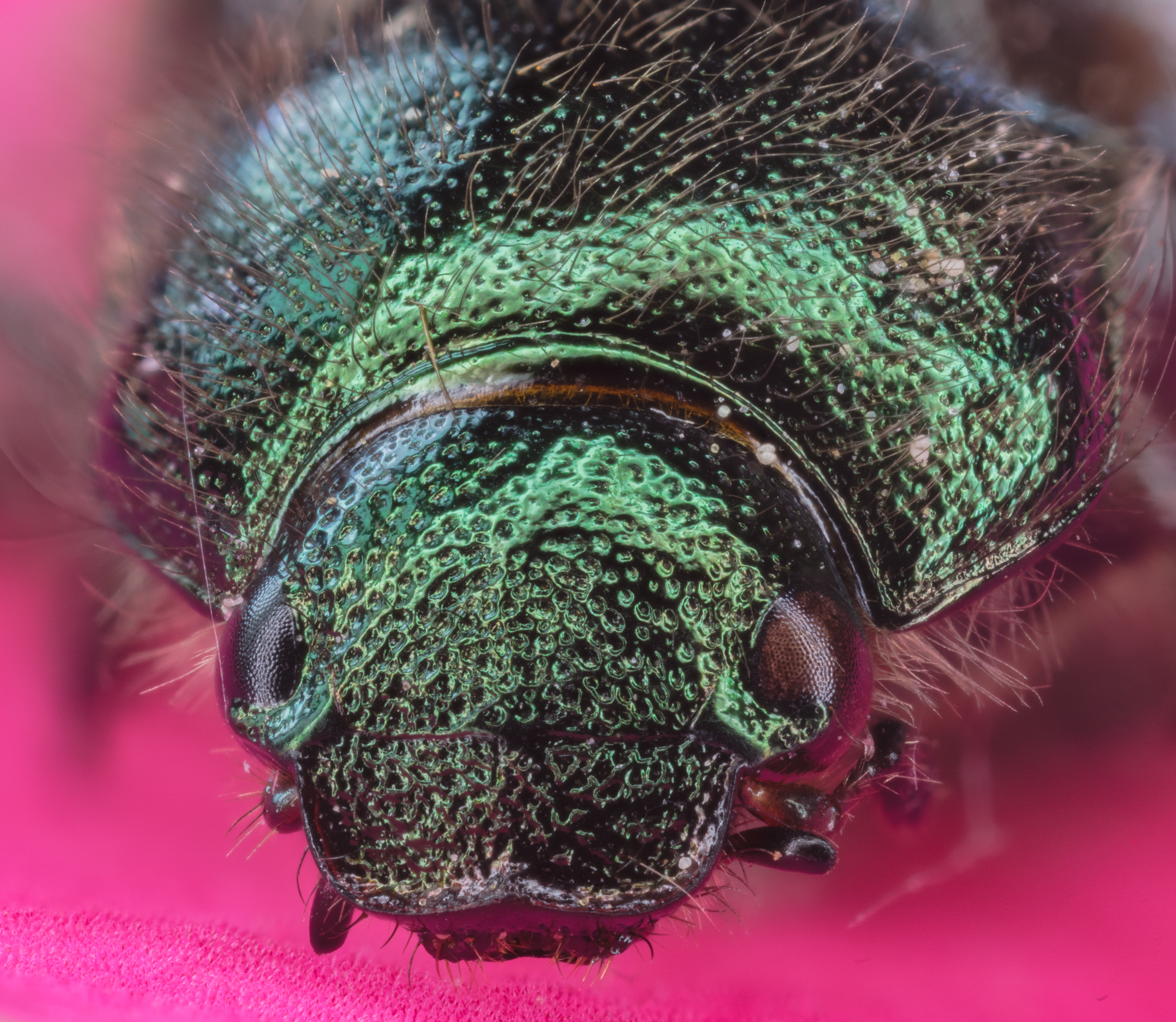 Garden chafer (Phyllopertha horticola), Hartelholz, Munich, Germany